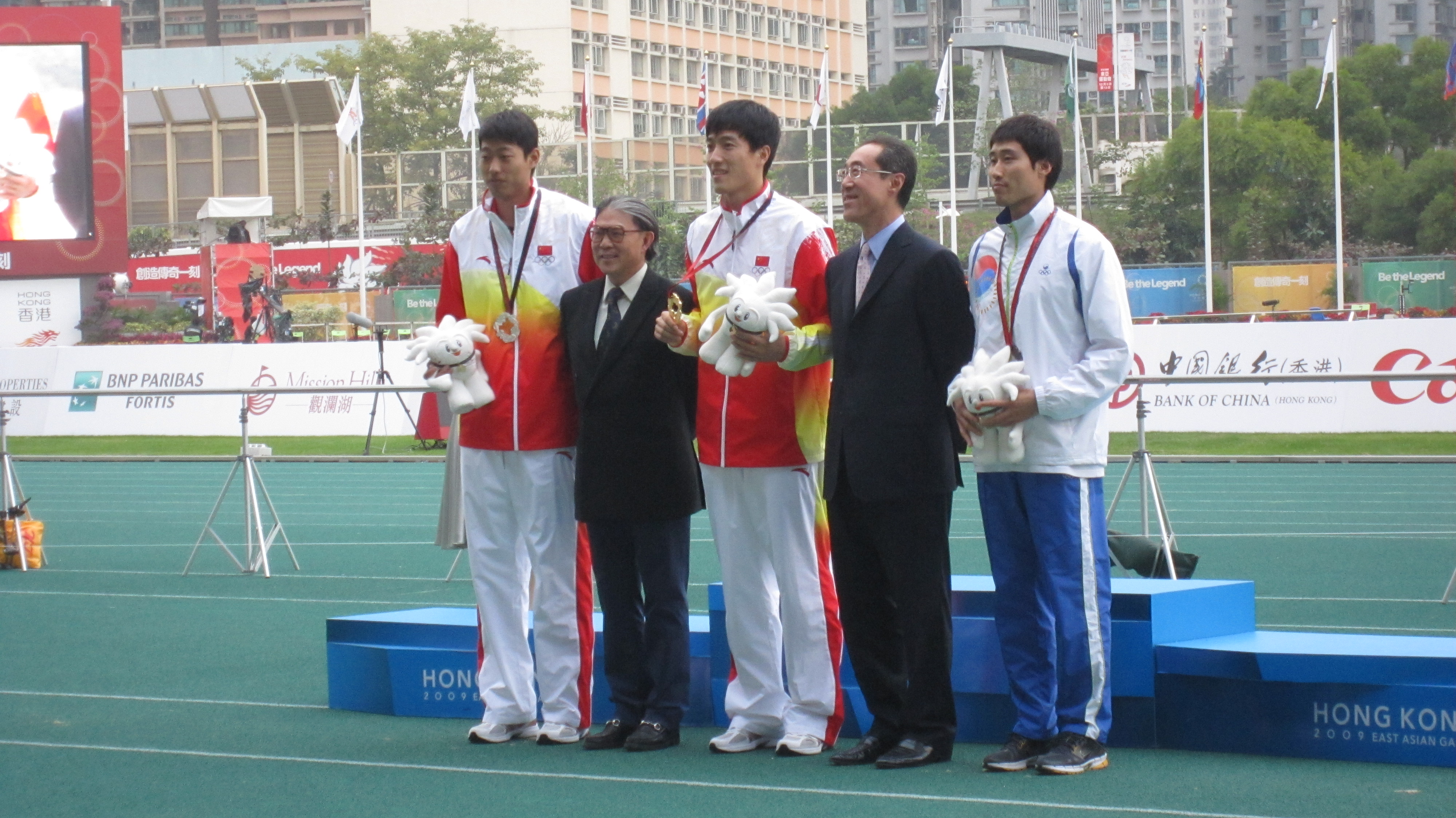 Hong Kong East Asian Games